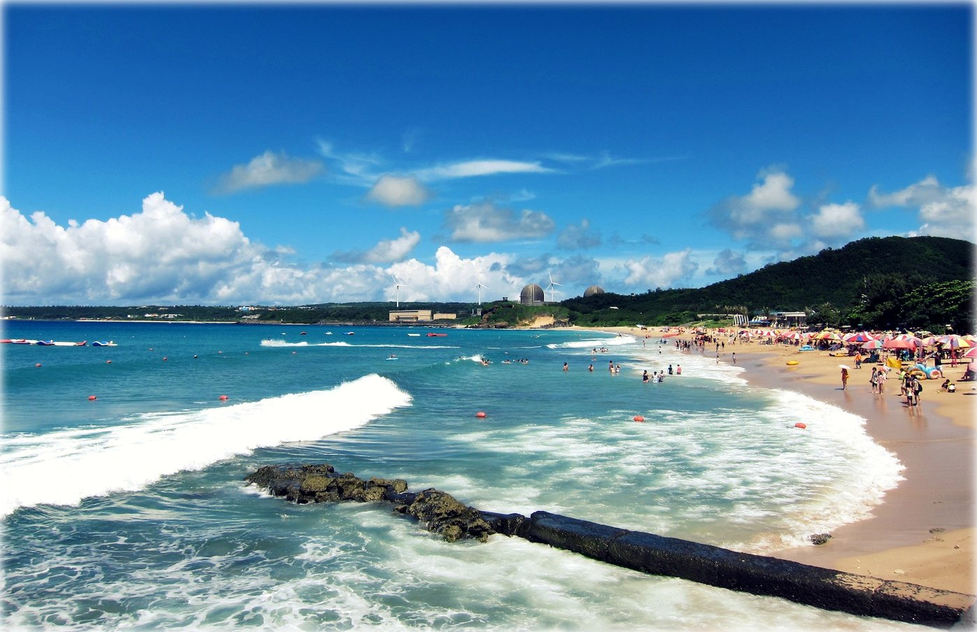 Nanwan (South Bay) is one of the beaches of Kenting coast.